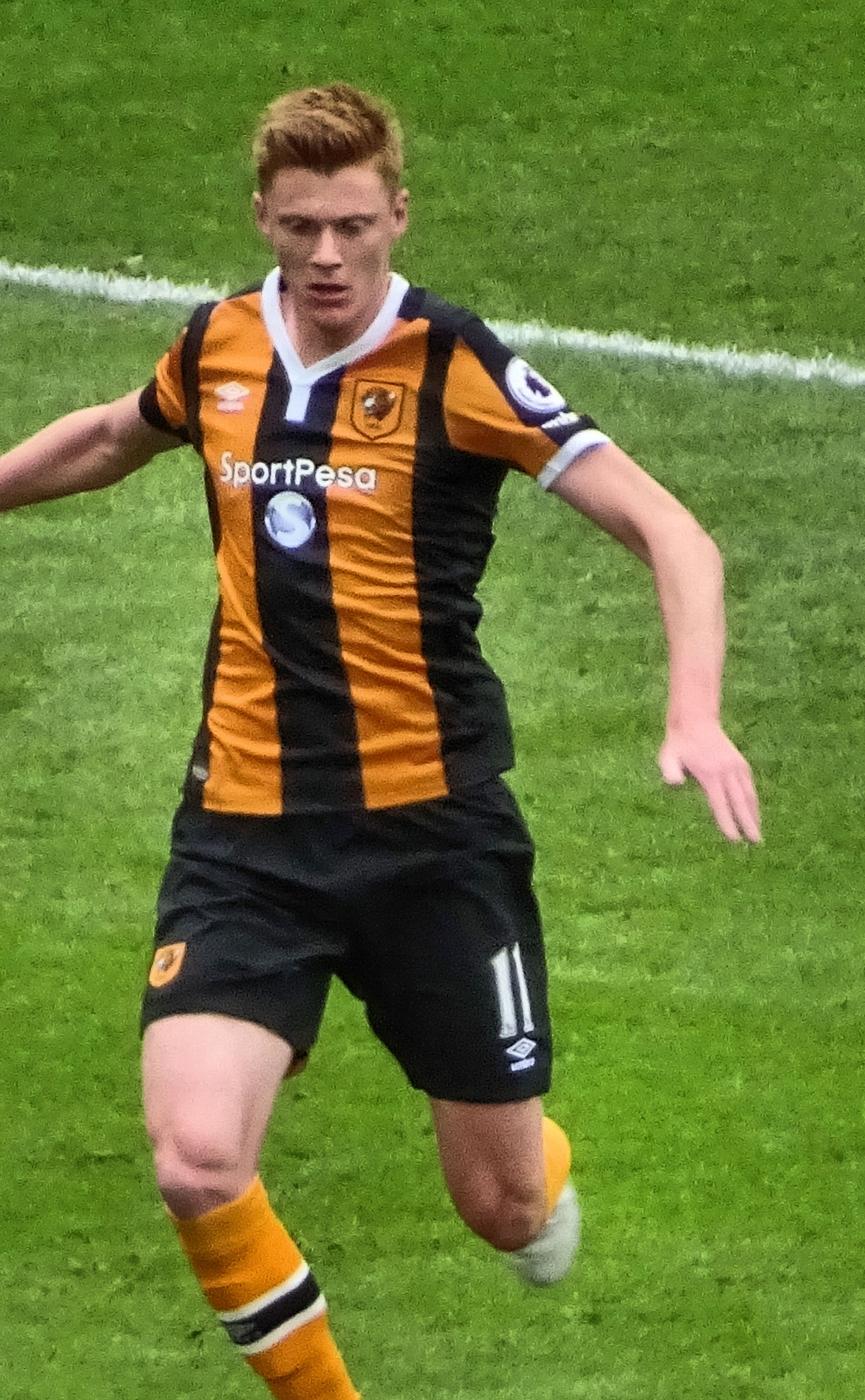 Sam Clucas playing for Hull City against Chelsea at the KCOM Stadium, Hull on 1 October 2016